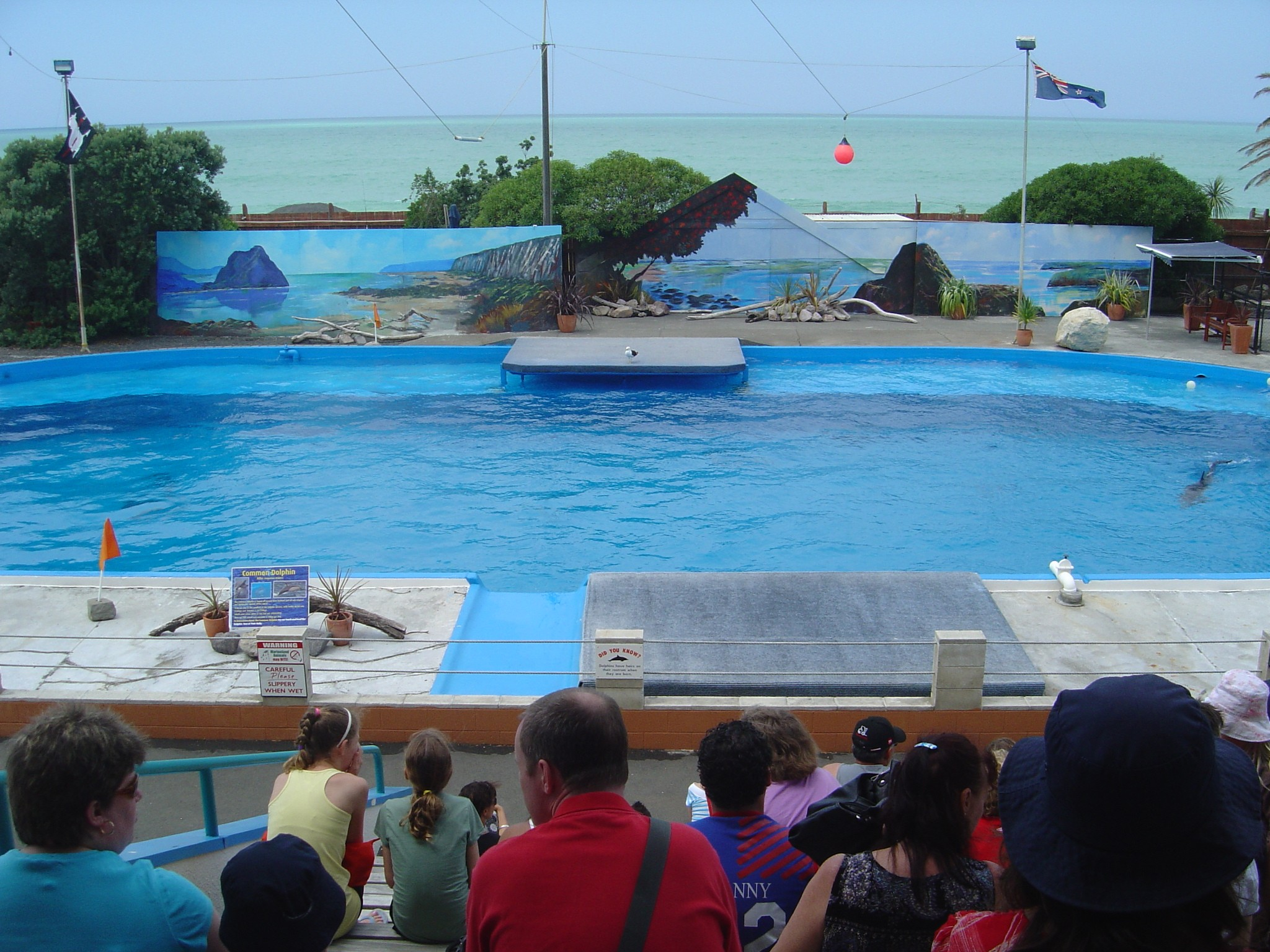 Photo of main tank at Marineland, Napier